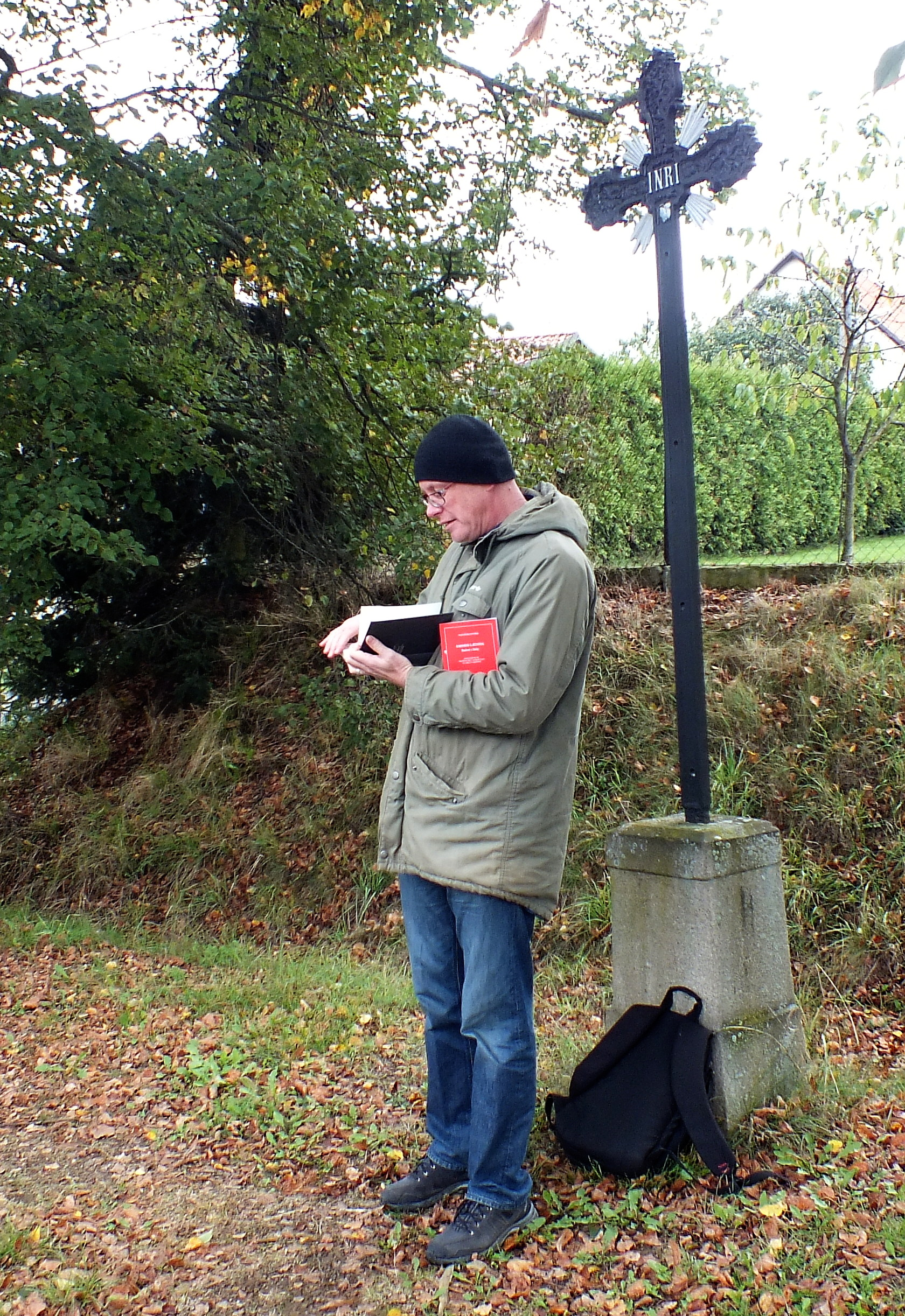 P. Petr Beneš, CSsR, reading a biblical text during a pigrimage in Starý Knín 8th October 2016